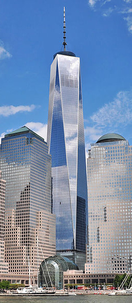 One World Trade Center cropped2